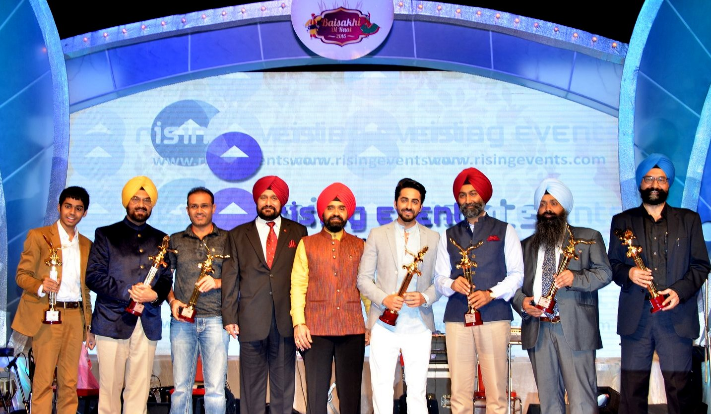 Trishneet-Arora-at-Punjabi-Icon-Awards